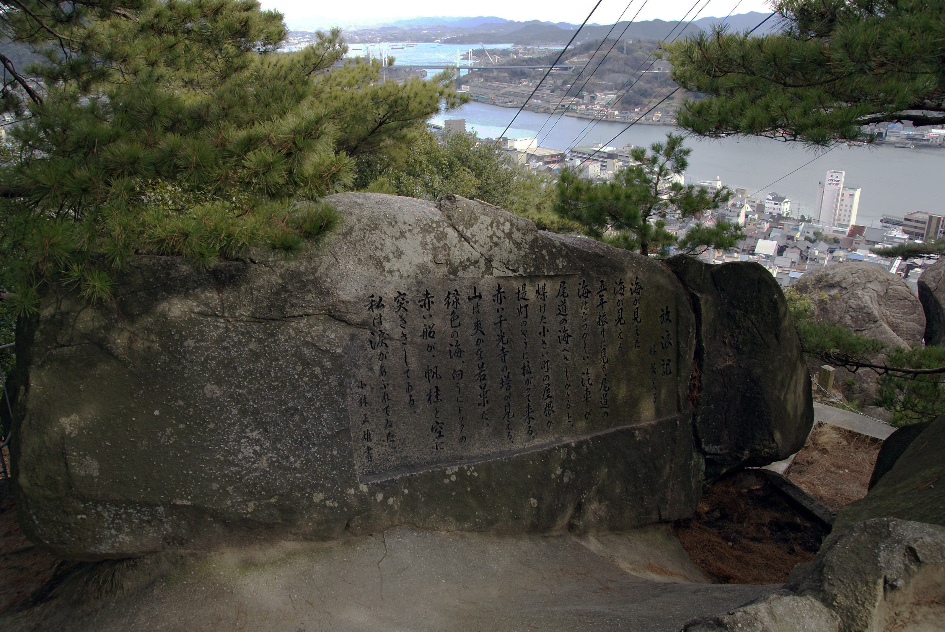 Footpath of literature of Onomichi, Hiroshima prefecture, Japan